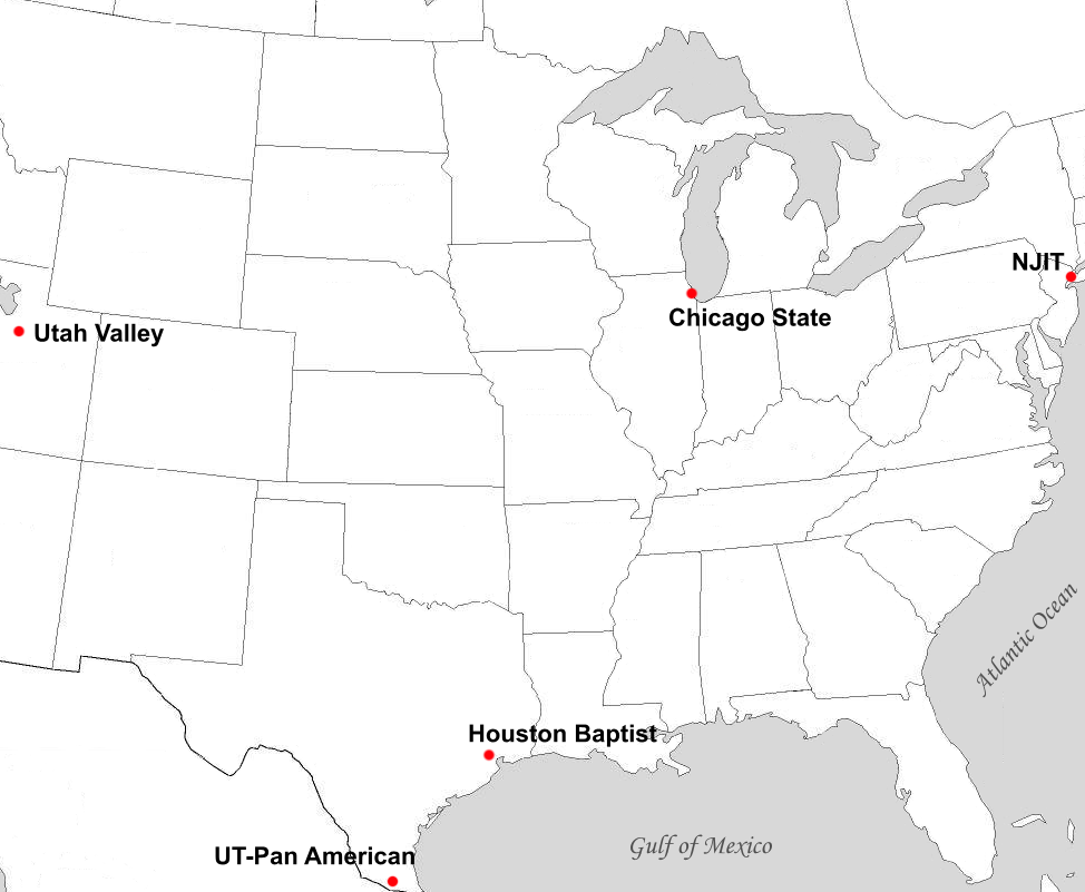 Locations of Great West Conference full member institutions. Personal creation in Photoshop; All rights released to the public to do whatever they want with it.